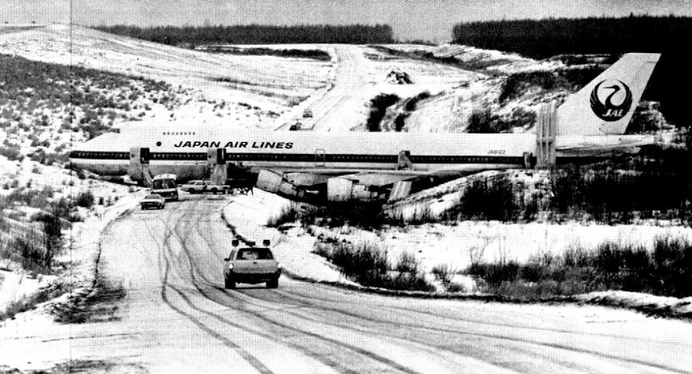 Japan Airlines Flight 422（JA8122）wreckage